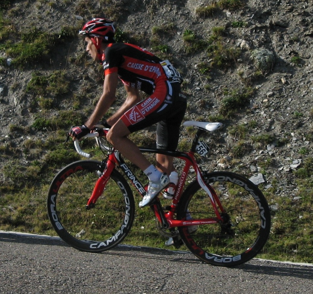 Alberto Losada, 2008 Vuelta a España, 8th stage, Port de la Bonaigua, Spain.